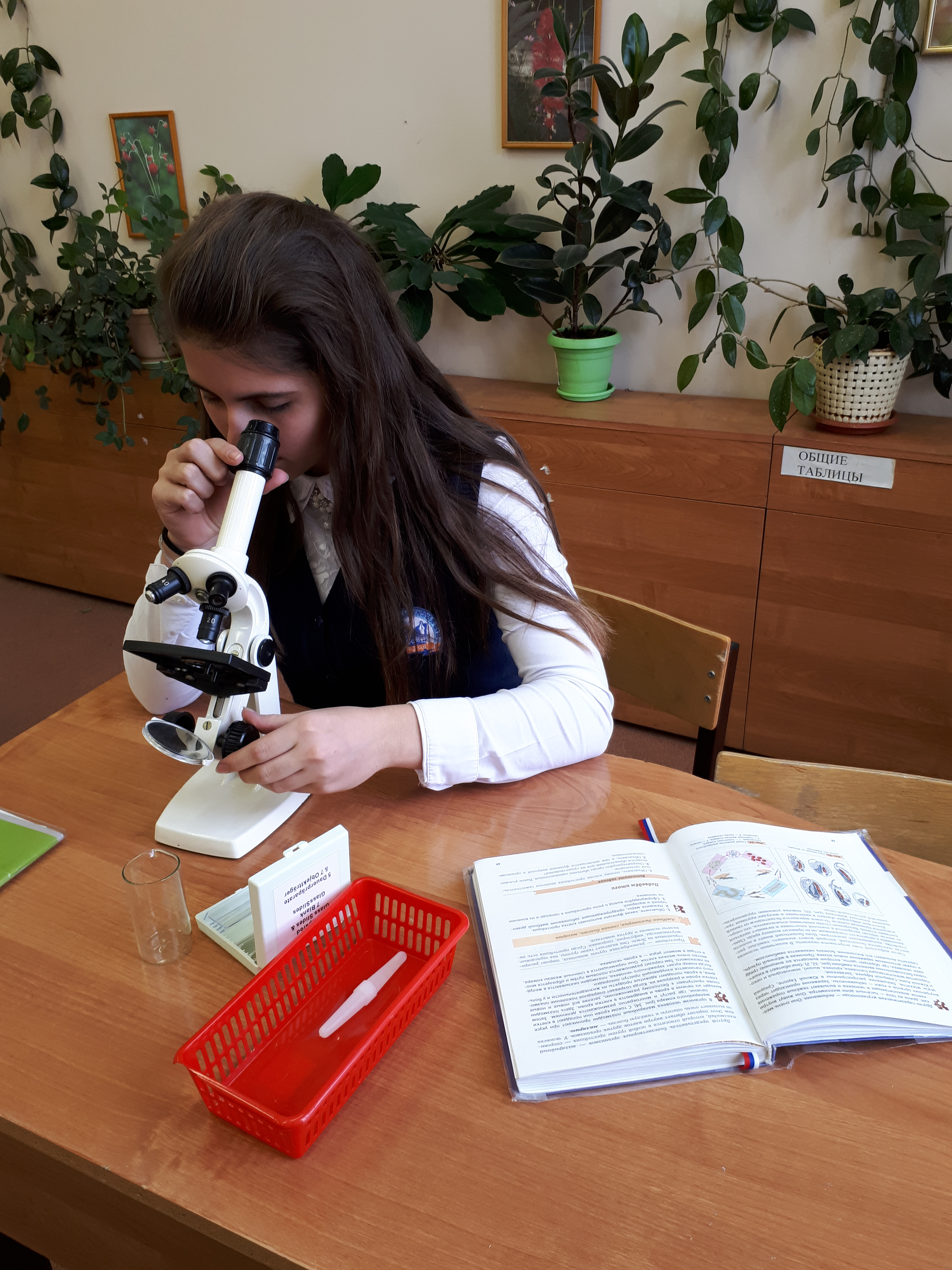 World studies